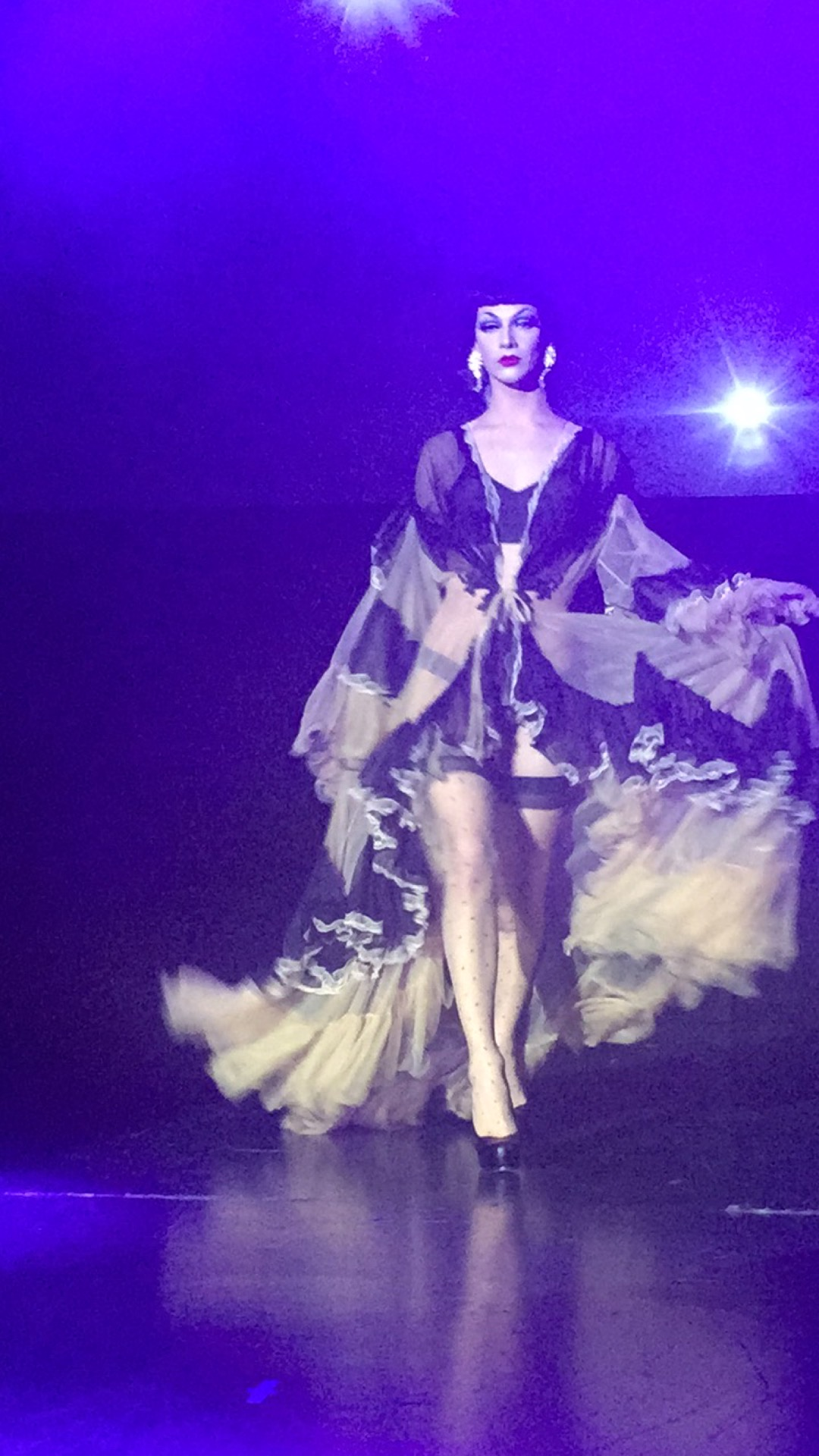 American drag queen Violet Chachki, the winner of RuPaul's Drag Race's seventh season, performing at the RuPaul's Drag Race: Battle of the Seasons Tour in Copenhagen, Denmark, on April 1st, 2016.